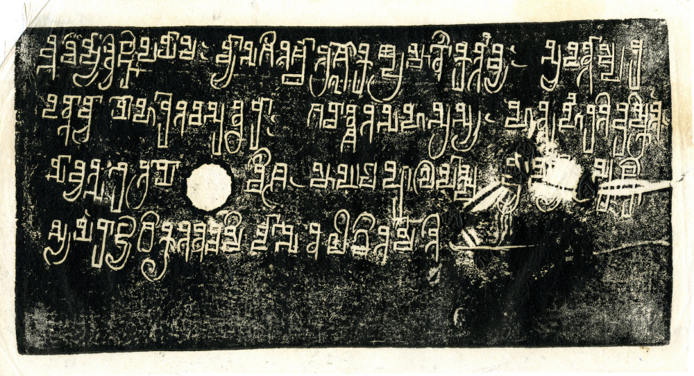 Tirodi charter of Pravarasena II, sixth plate